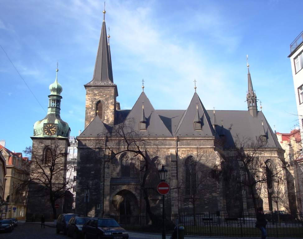 Prague New Town, St Peter church Na Porici from the south